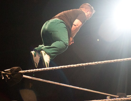 Hornswoggle performing a Tadpole Splash (frog splash) at a WWE SmackDown live event in Montgomery, Alabama on January 7, 2012.